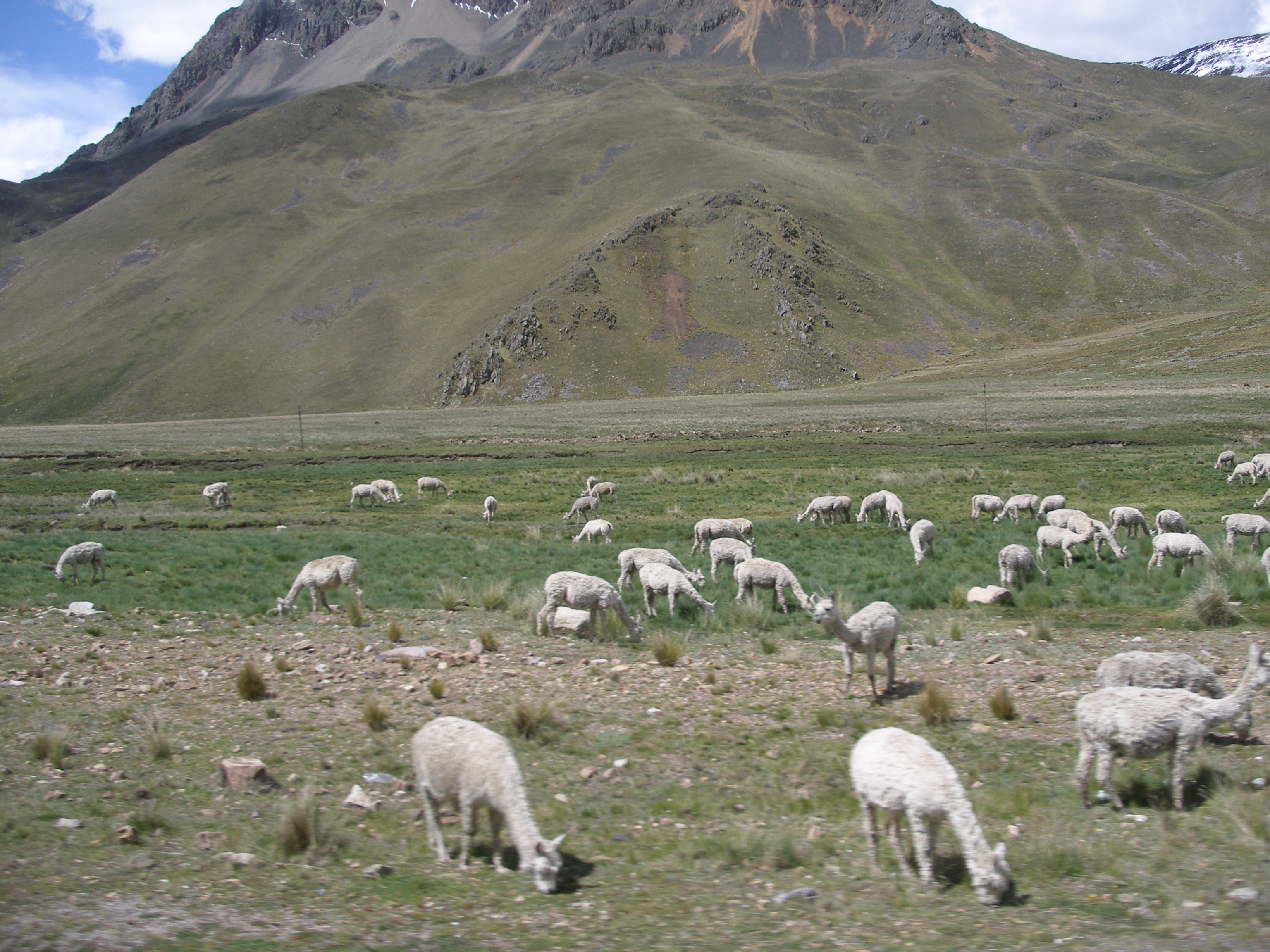 High in the Andes Animals of Peru.